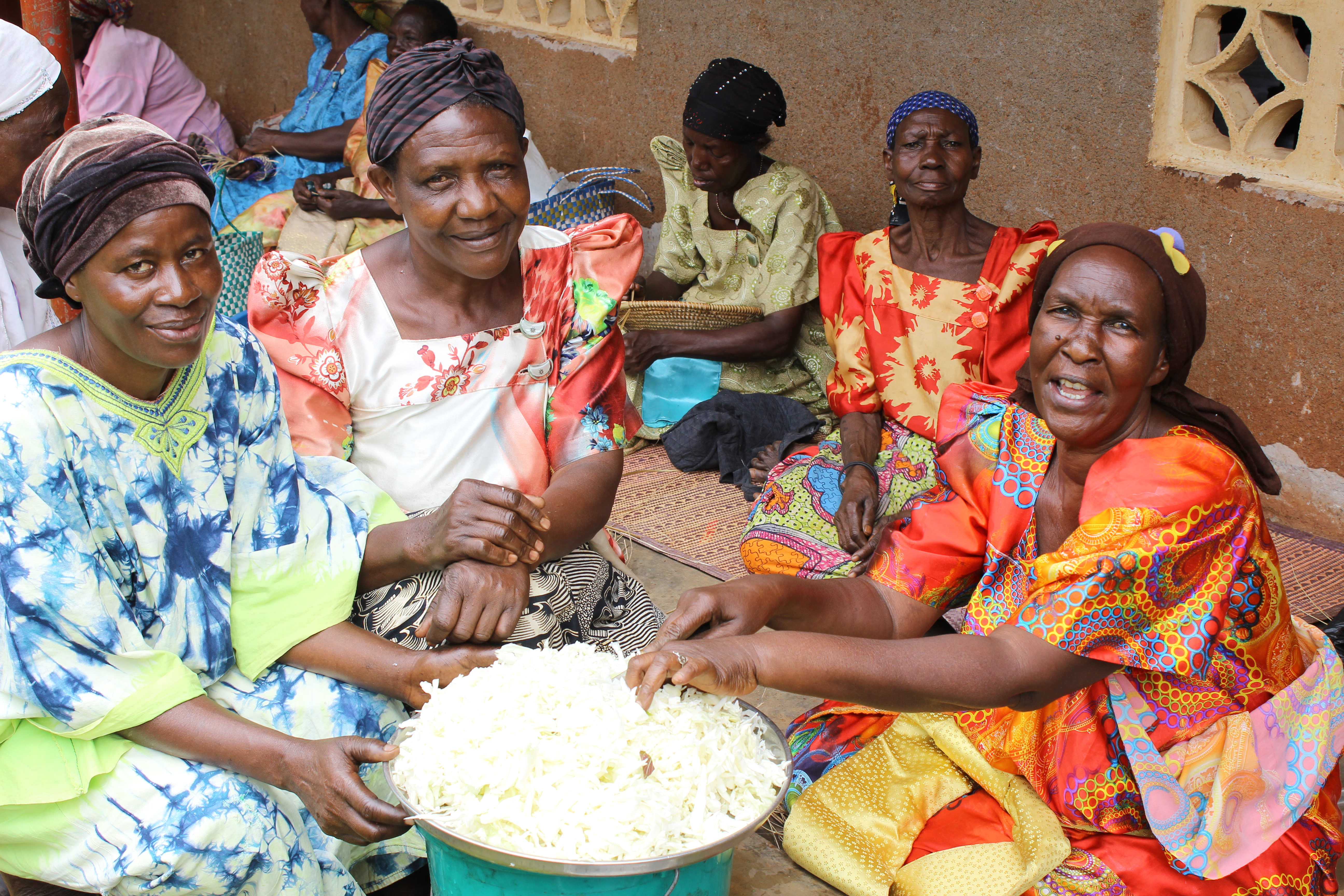 This was taken at the in a town called Jinja just outside Kampala in Uganda where women get together to work on crafts in order to sell to then make an income and provide for their family. These women are all widows, who lost their husbands. They come together to support eachother twice weekly. This is an image of "African people at work" from Uganda